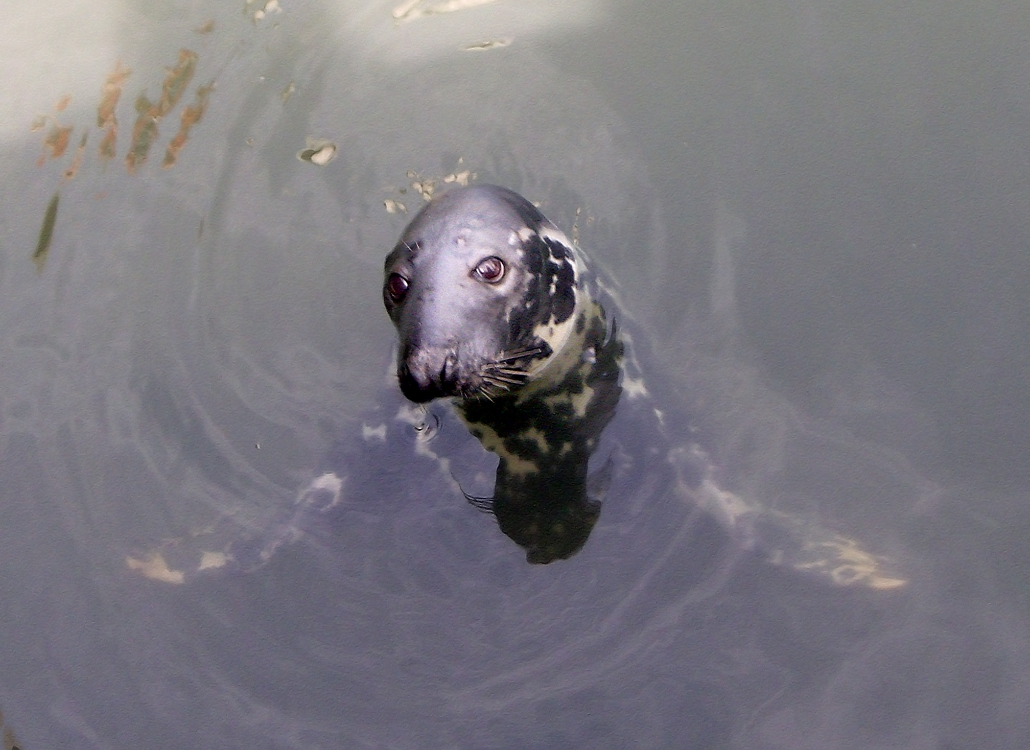 Willi